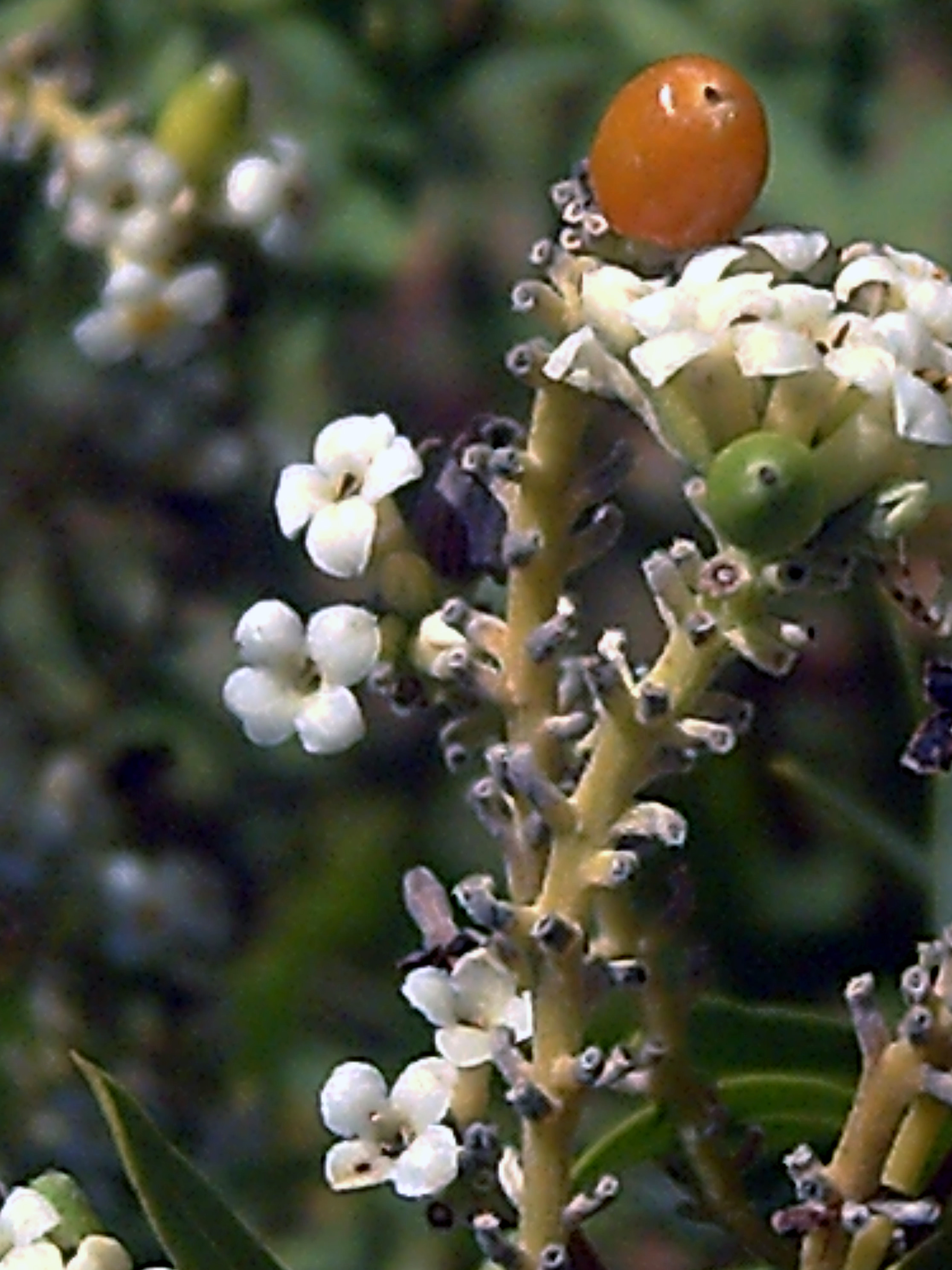 Daphne gnidium in Sierra Madrona, berries and inflorescence